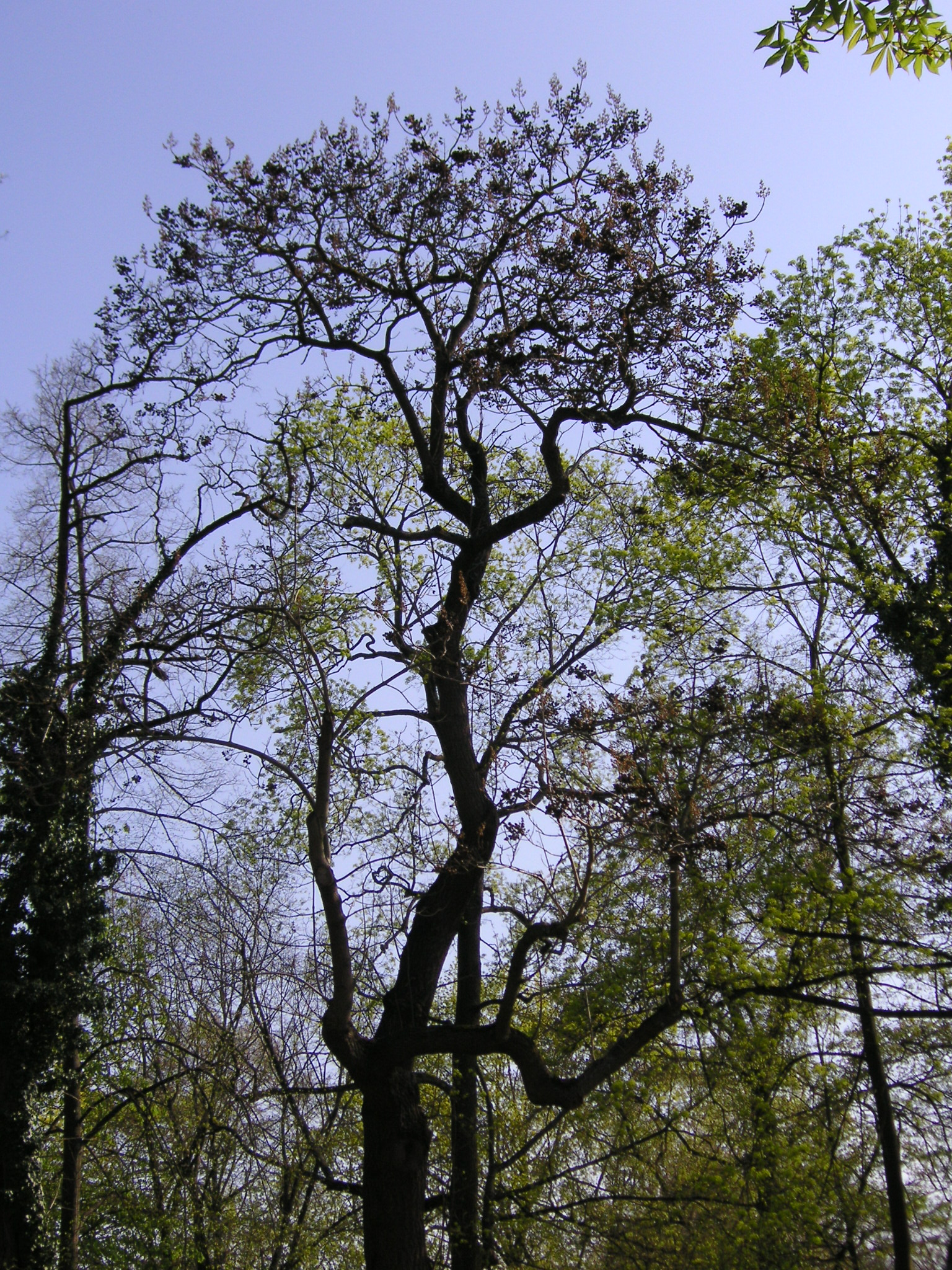 Paulownia tomentosa